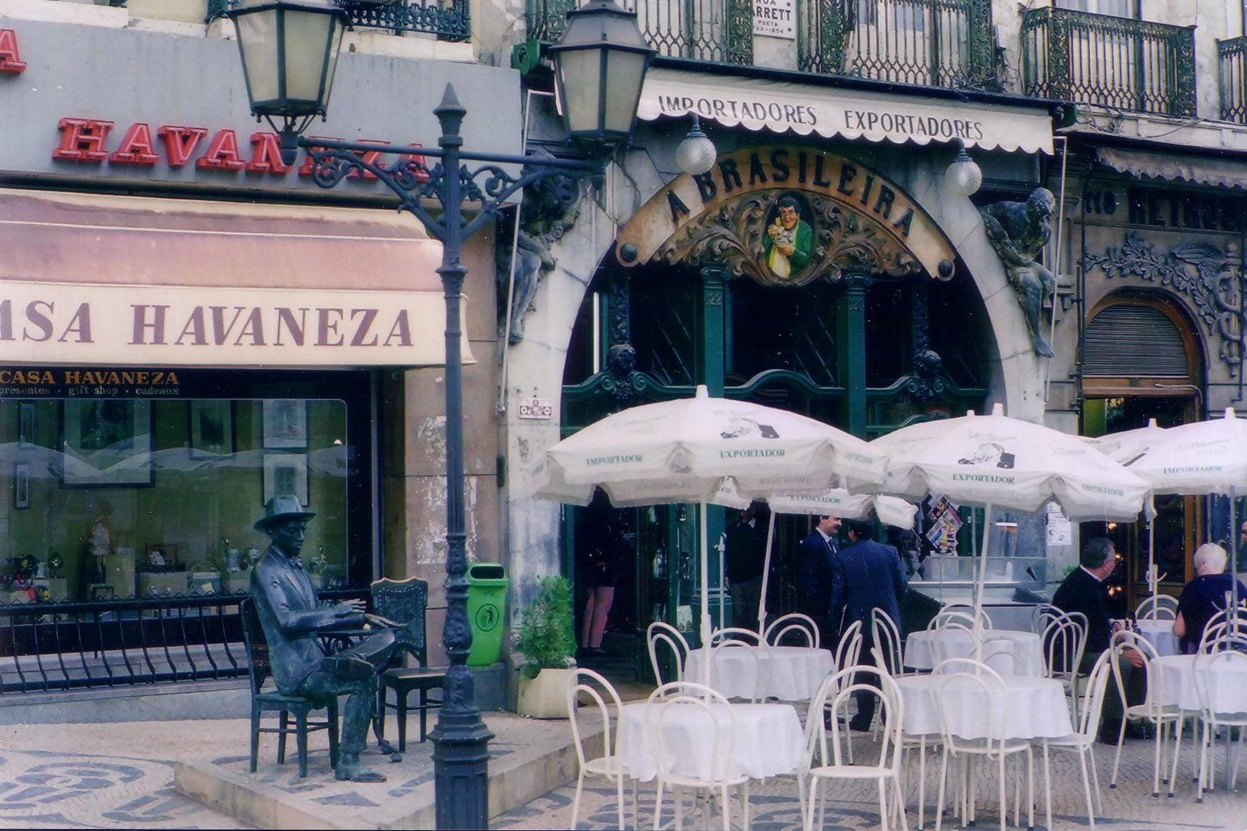 Cafe Brasileira in Lisbon